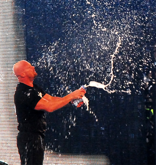 Stone Cold Steve Austin does his signature beer-smashing.